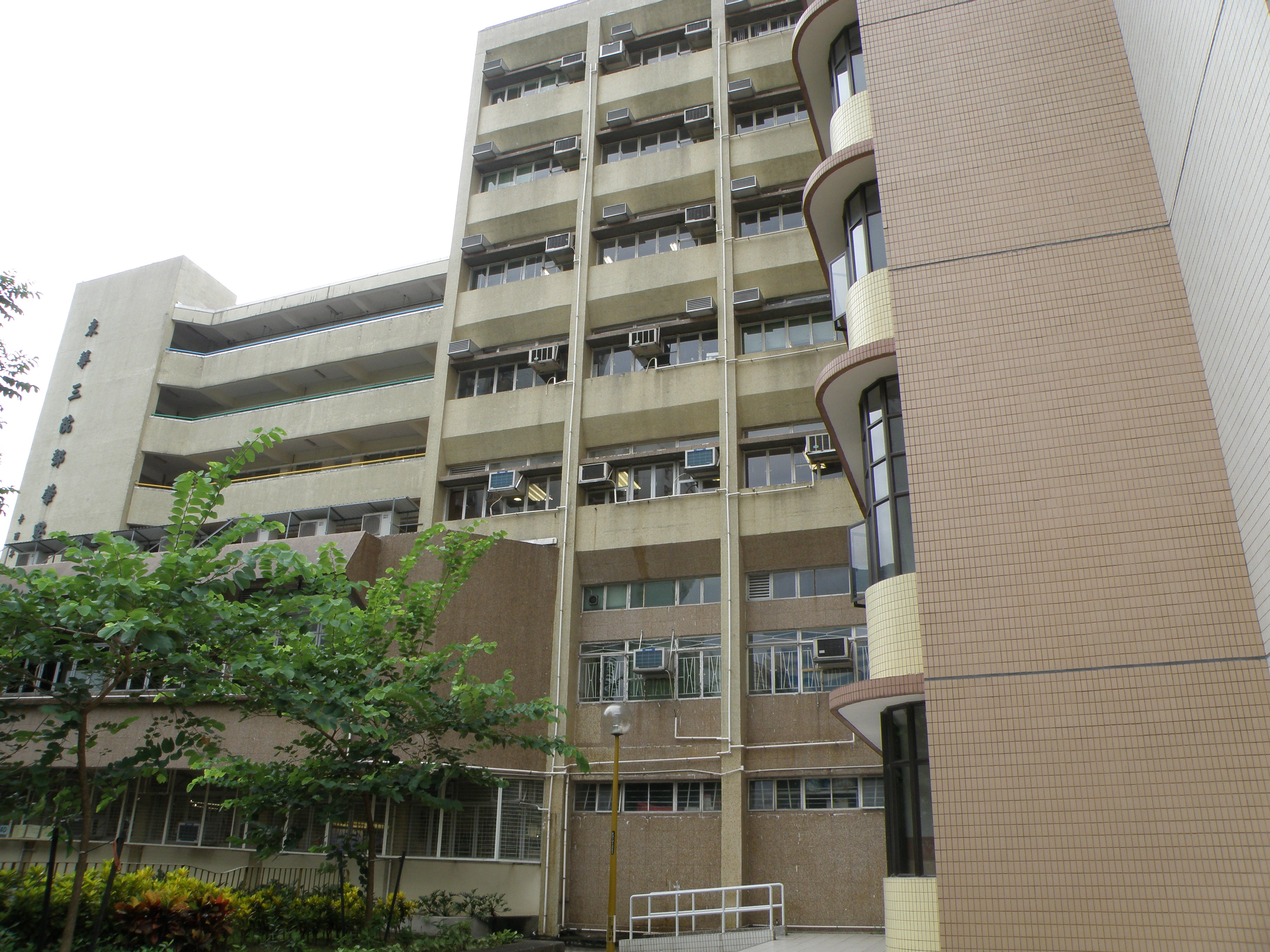 Tung Wah Group of Hospitals Tang Shiu Kin Primary School in Tuen Mun, Hong Kong.